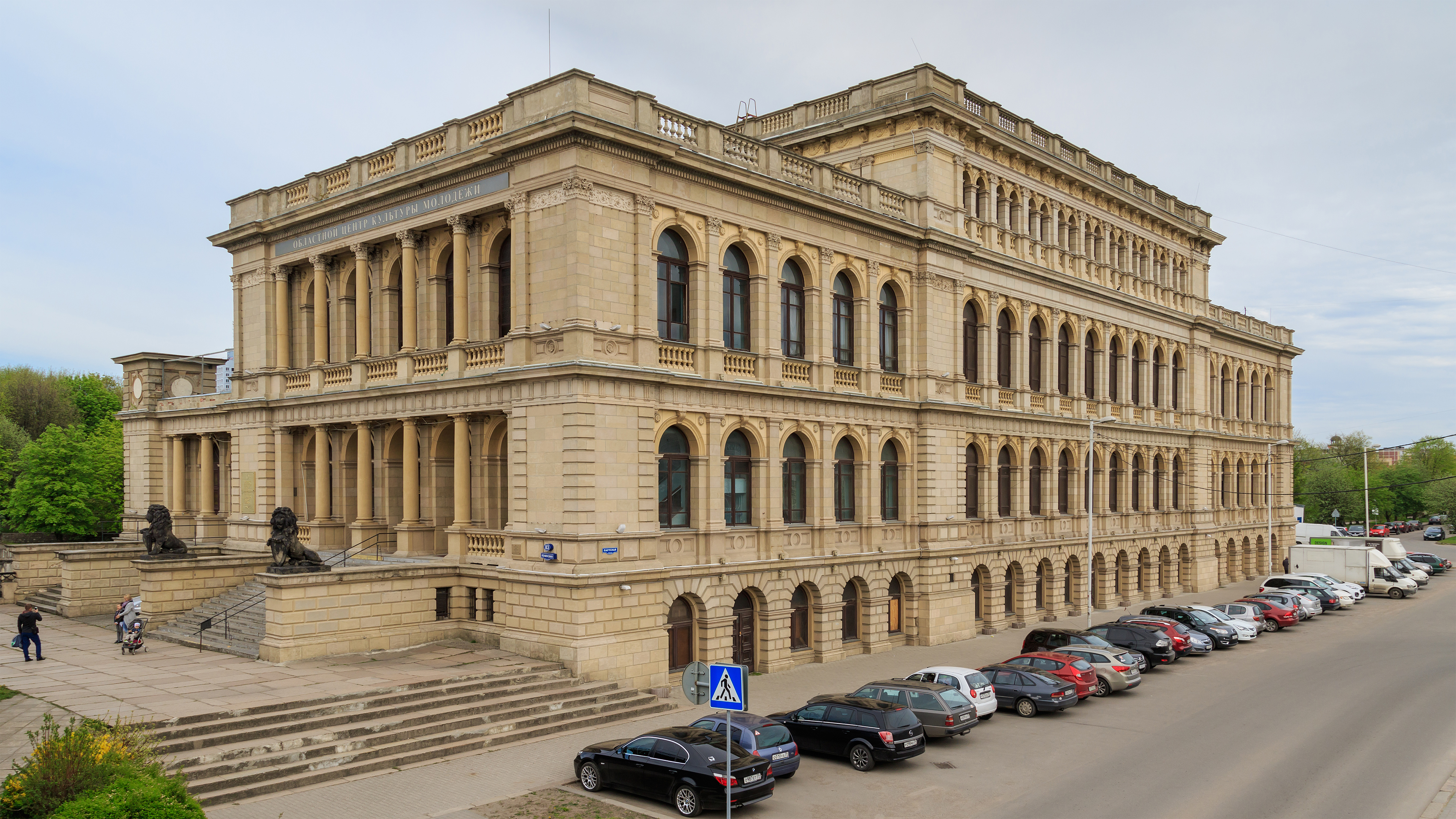 Old Stock Exchange in Kaliningrad formerly Königsberg, Kaliningrad Oblast (Russia).